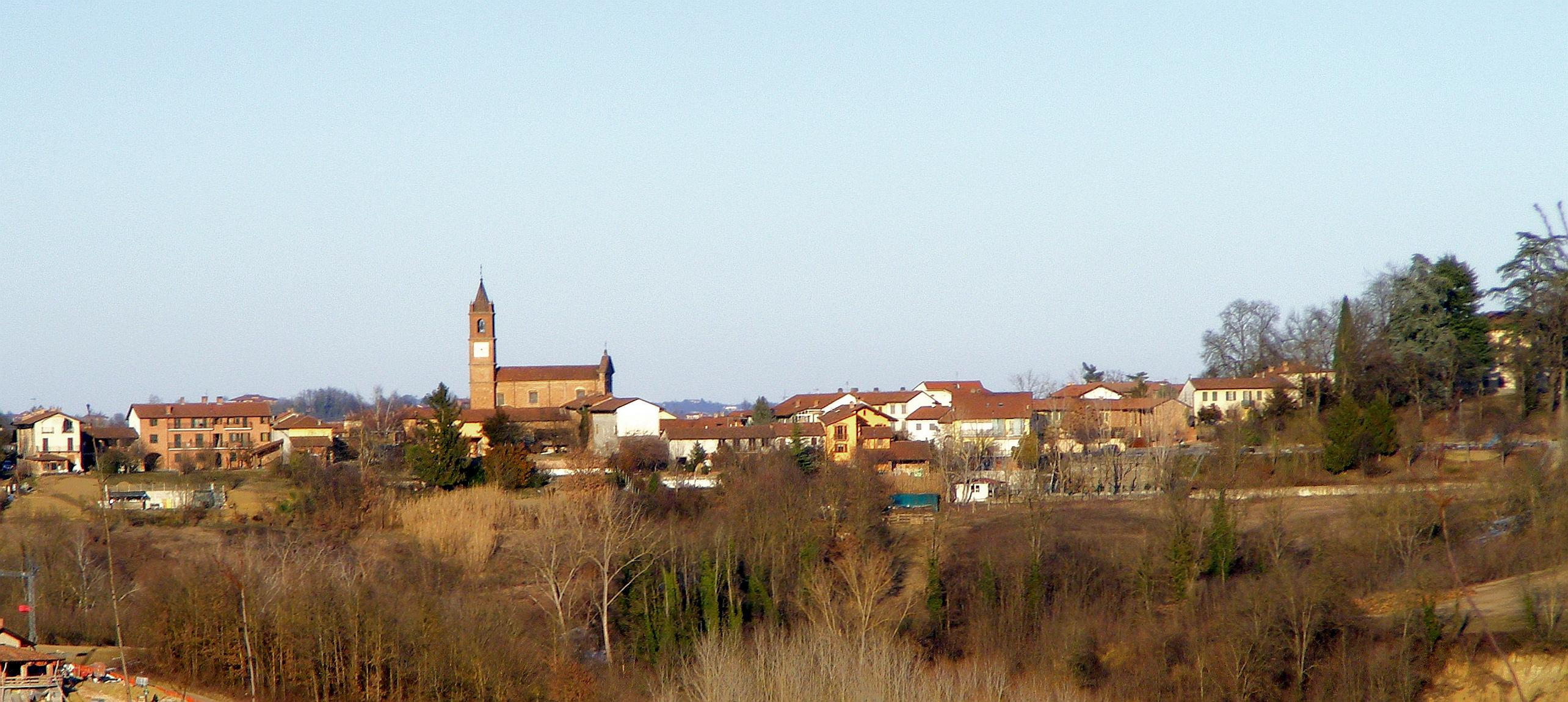 Maretto (AT, Italy): panorama from Madonna di Volpiglio